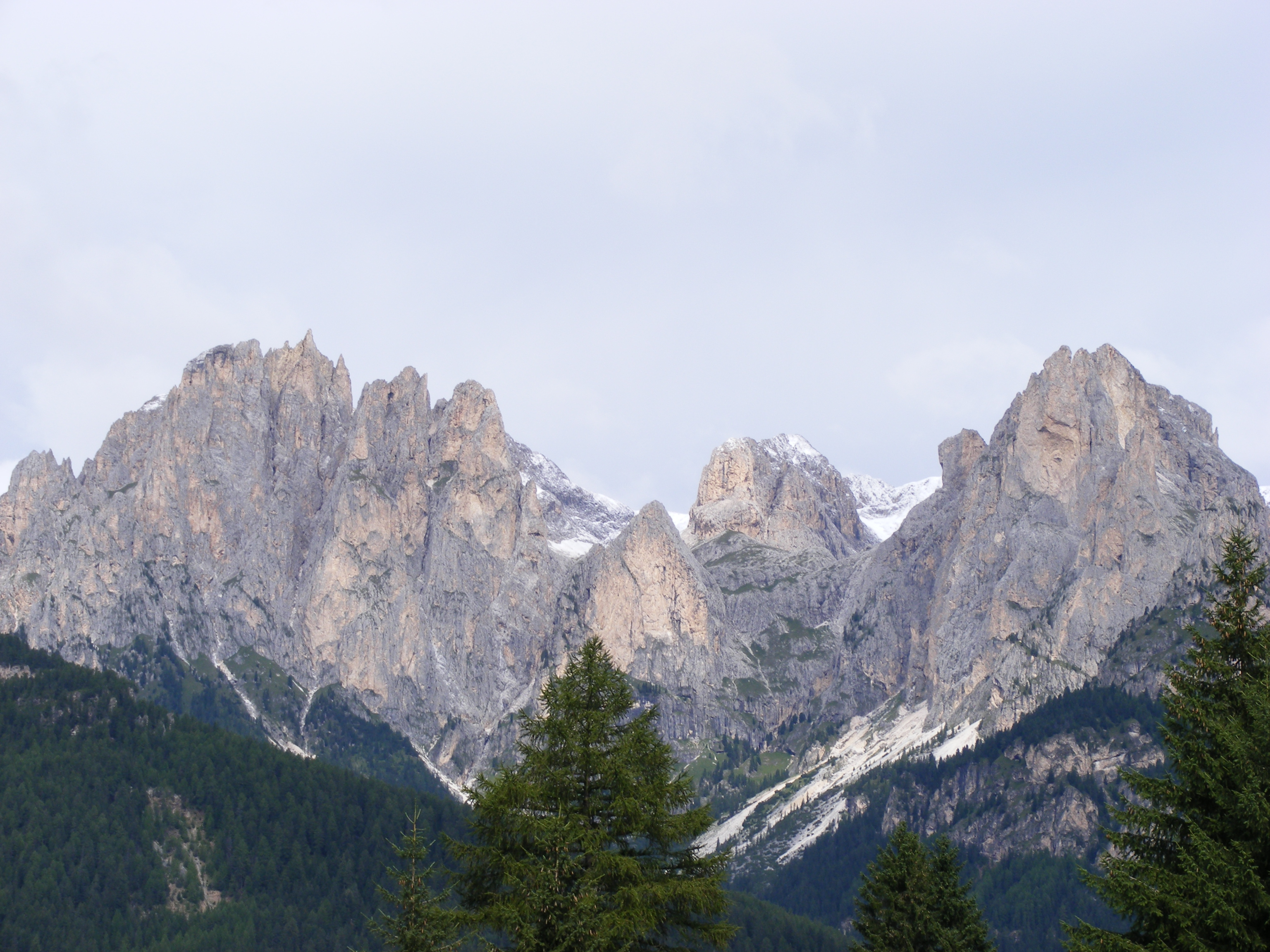 The Rosengarten, seen from Pozza di Fassa From camping Vidor